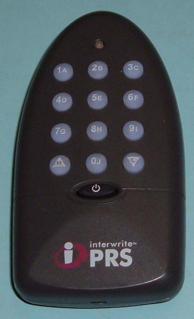 Interwrite brand PRS transmitter, as used at Georgia Tech in 2005